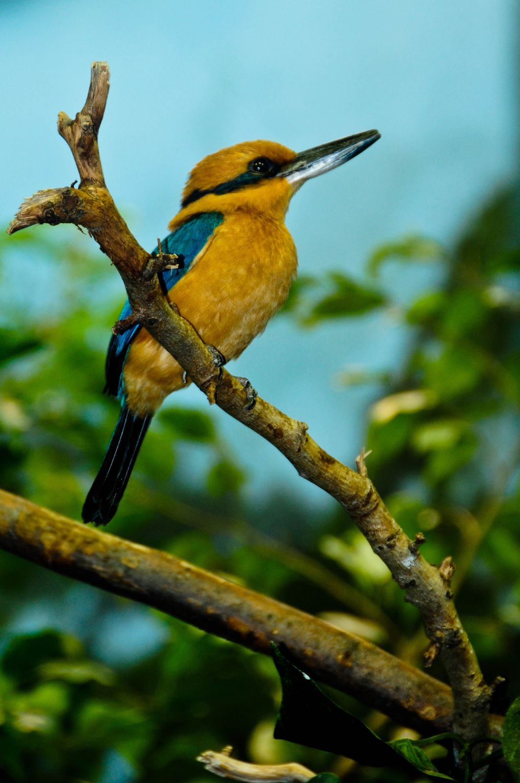 A male Micronesian Kingfisher (nominate supspecies) at Lincoln Park Zoo, Chicago, USA.